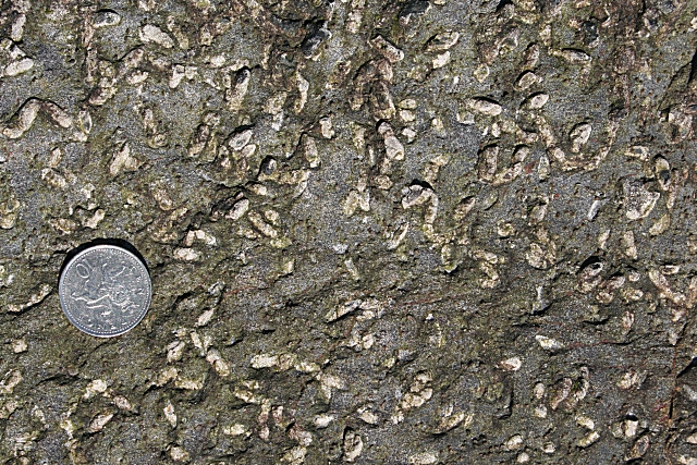 Andalusite crystals in metamorphic rock located at Boyndie Bay near Whitehills, northeast Scotland. Scale: the coin has a diameter of 25 mm.